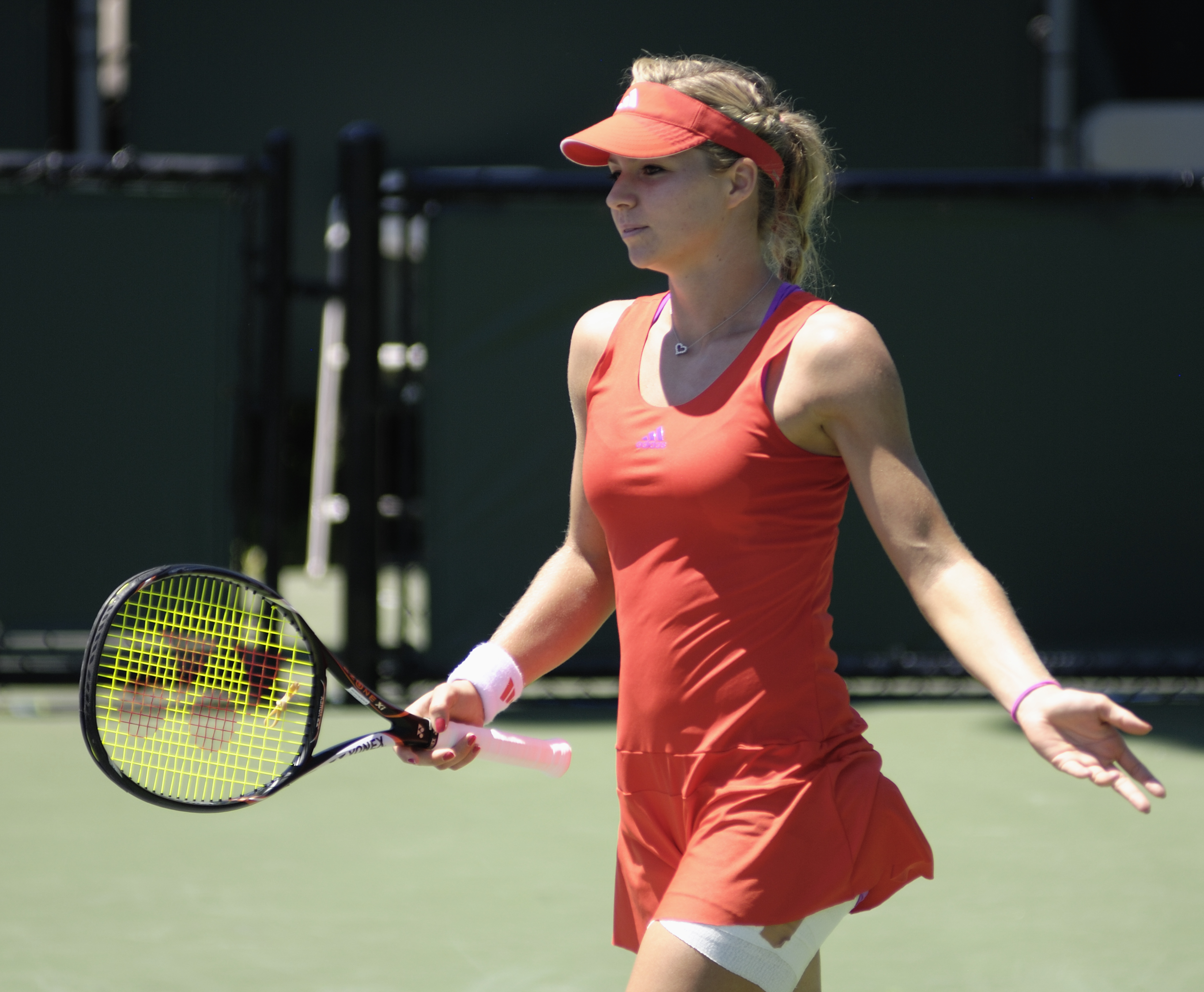 Maria Kirilenko at the 2012 Sony Ericsson Open (Miami)